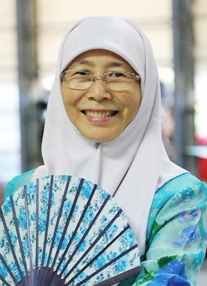 PRK P.044 Permatang Pauh By-Election Day With Dato Seri Dr Wan Azizah Putting Ballot Vote which happen on May 7, 2015. (Official Pocket News Editorial Images By JohnShen Lee)